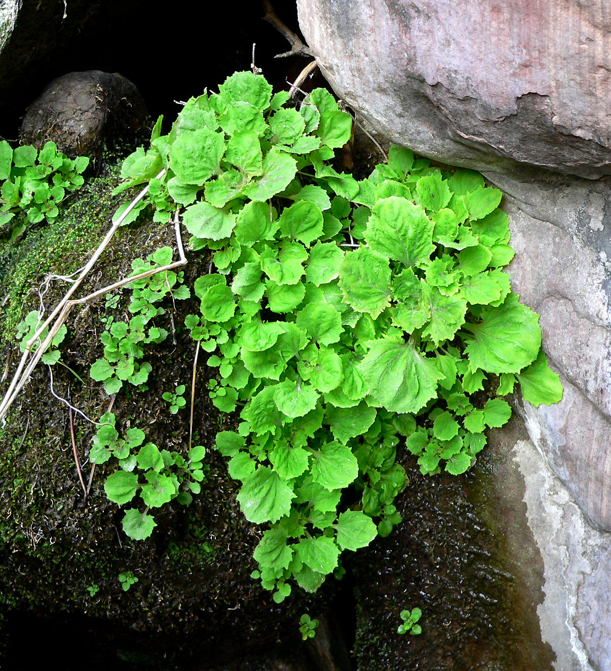 Mimulus guttatus on First Creek Canyon, Red Rock Canyon, southern Nevada